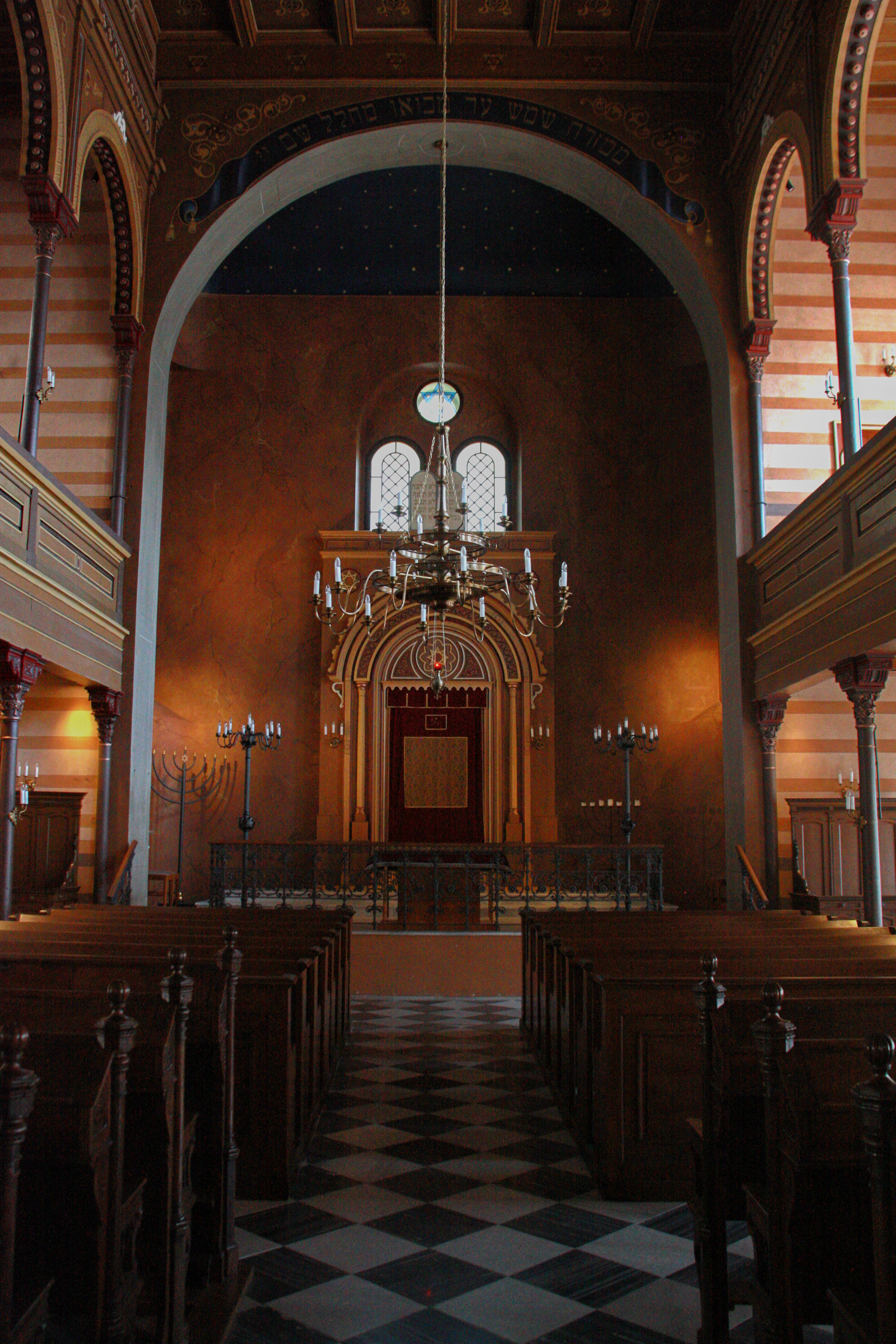 Interior of Krnov synagogue, Bruntál District, Moravian-Silesian Region, Czech Republic